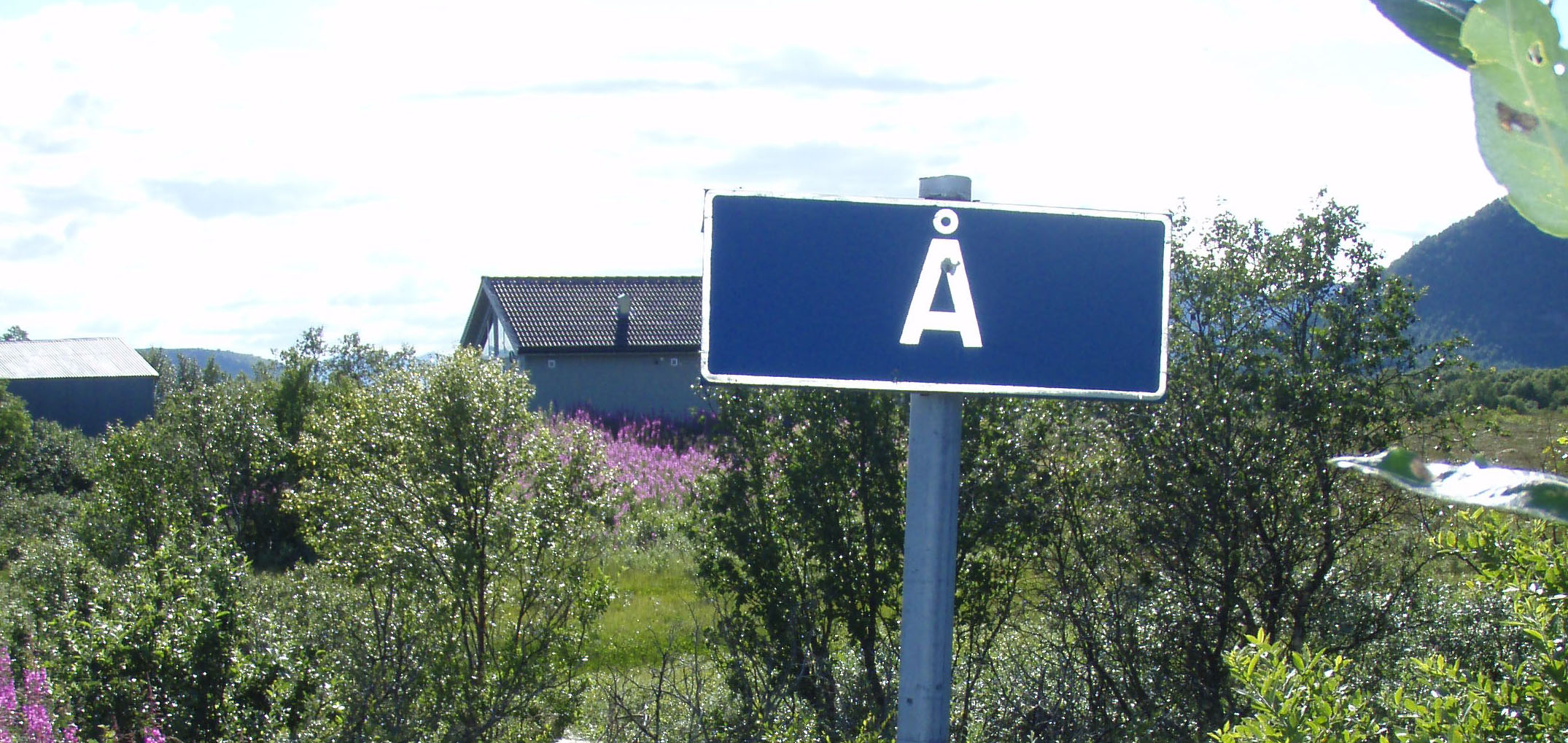 Roadsign from one of the short-named places in Norway:Å i Andøy